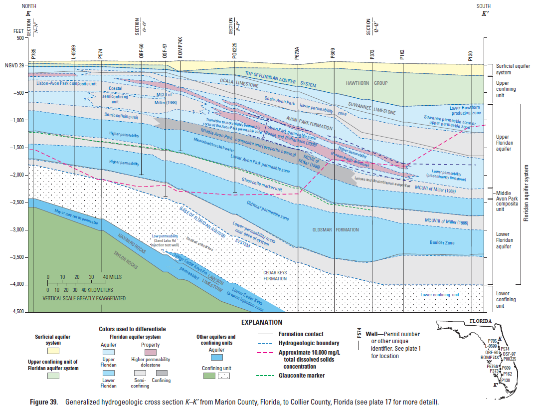 Generalized hydrogeologic cross section K–K’ from Marion County, Florida, to Collier County, Florida (see plate 17 for more detail).